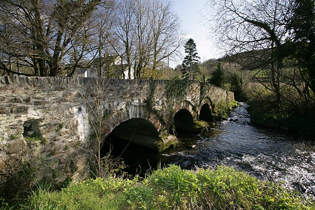 Llanychaer Bridge The River Aer joins the River Gwaun by Llanychaer Bridge.